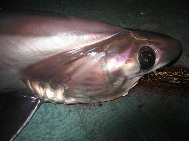 Head of a bigeye thresher shark (Alopias superciliosus)